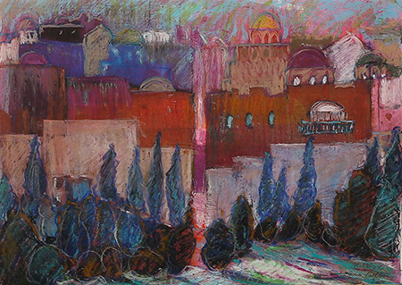 שרה גלבוע חומת ירושלים